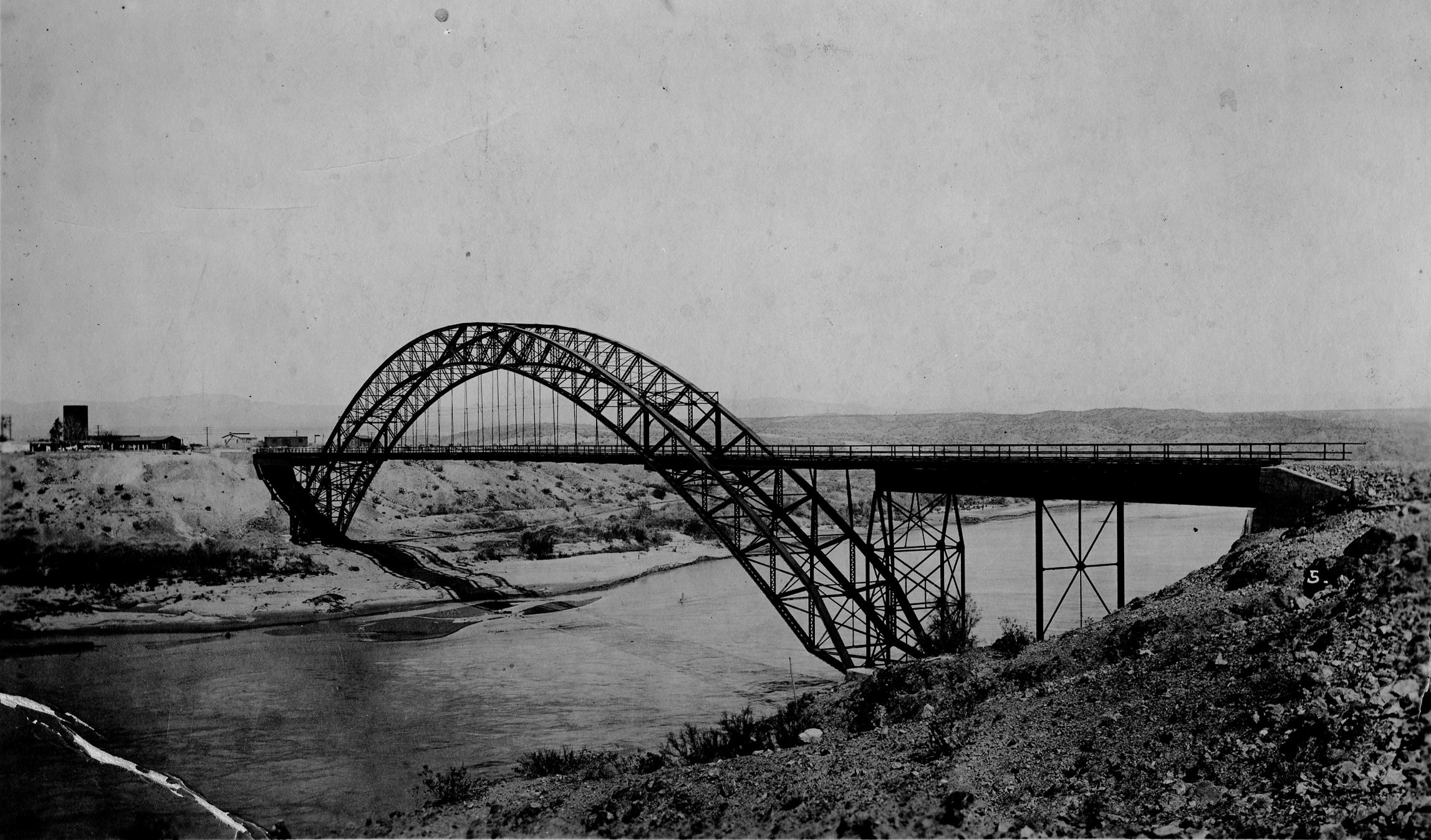 Image Title: Colorado River - Trails Arch Bridge or Topock Bridge Date: c.1920 Place: Colorado River, Topock, Arizona Description/Caption: Medium: black and white photograph Photographer/Maker: Unknown Cite as: AZ-B-0005, Restrictions: There are no known U.S. copyright restrictions on this image. While the digital image is freely available, it is requested that be credited as its source. For higher quality reproductions of the original physical version contact , restrictions may apply.